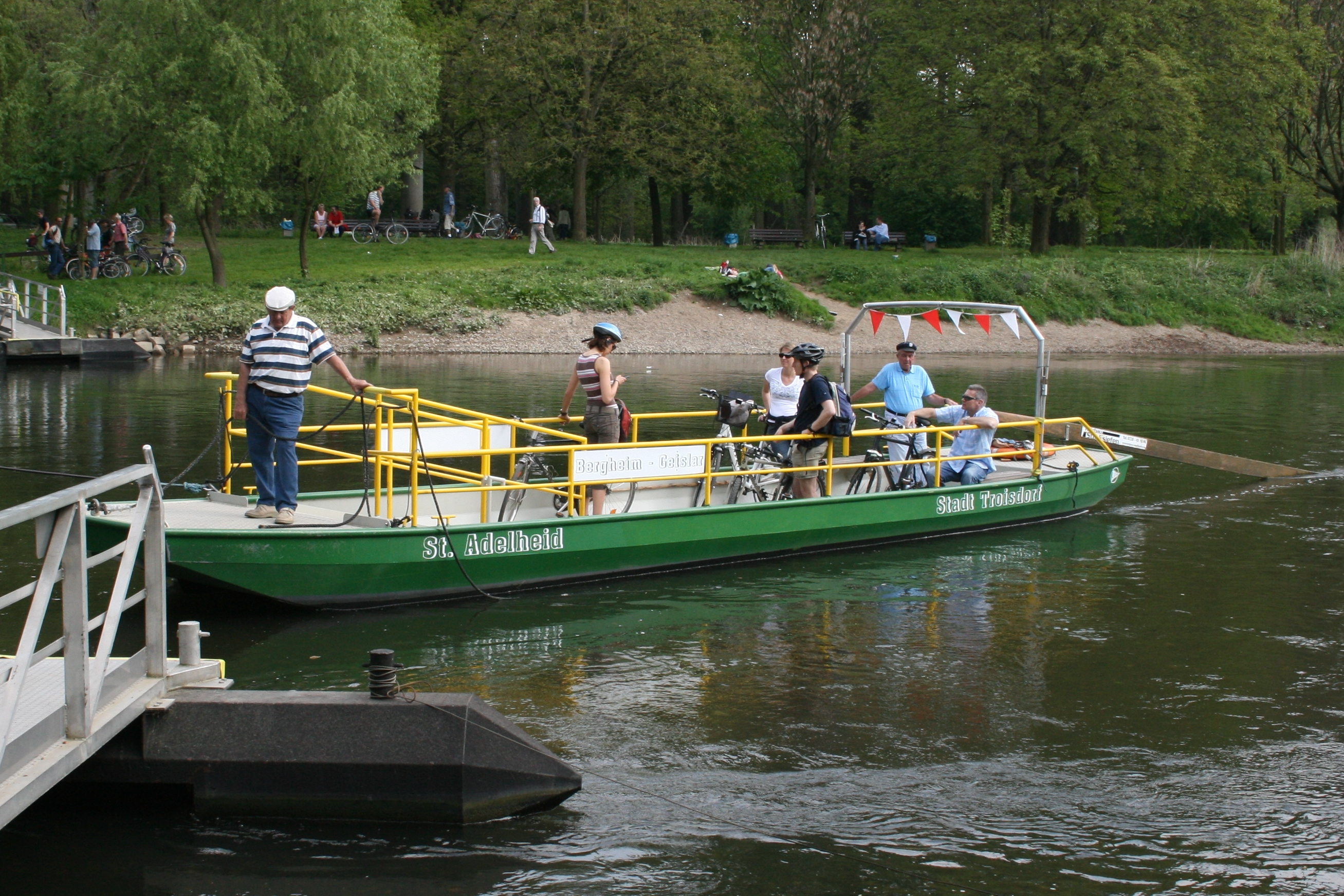 Reaction ferry "St.Adelheid" upon german river Sieg, located at Troisdorf-Bergheim nearby Bonn.